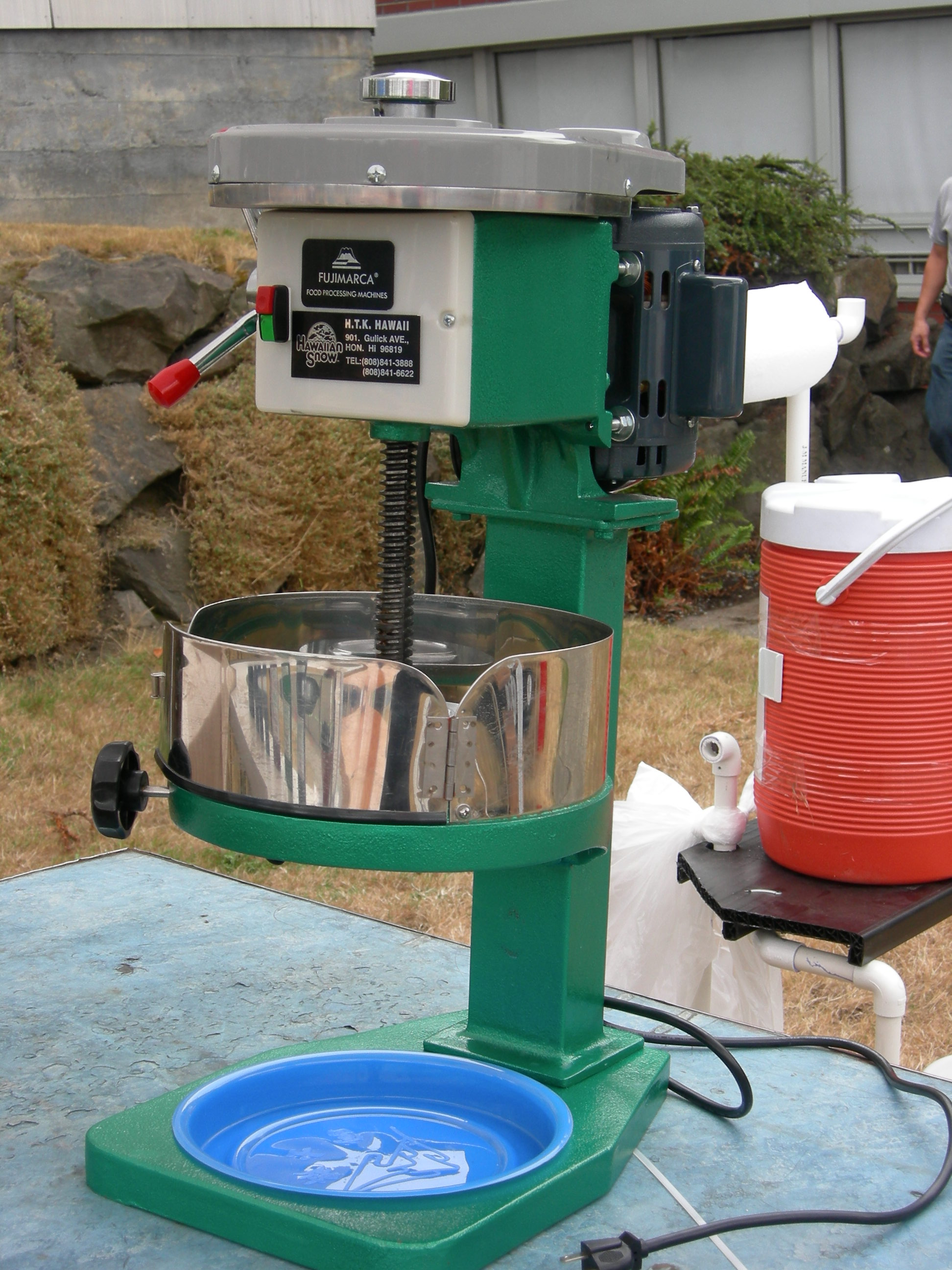 Machine for making "shave ice" ("kori"), photographed at the 75th anniversary Seattle Bon Odori Festival, Seattle, Washington. Machine was made in Hawaii (see label in photograph).